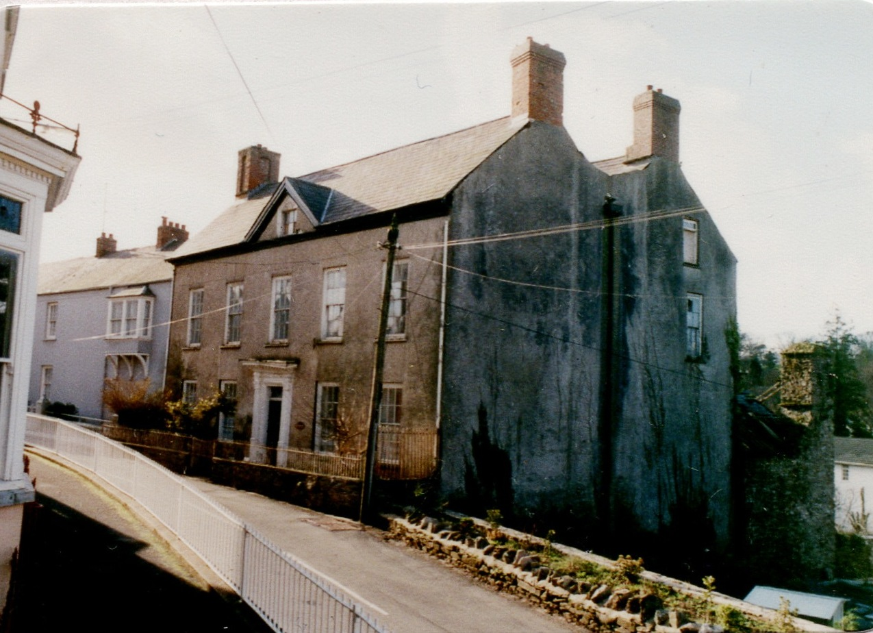 The Great House, King St, Laugharne